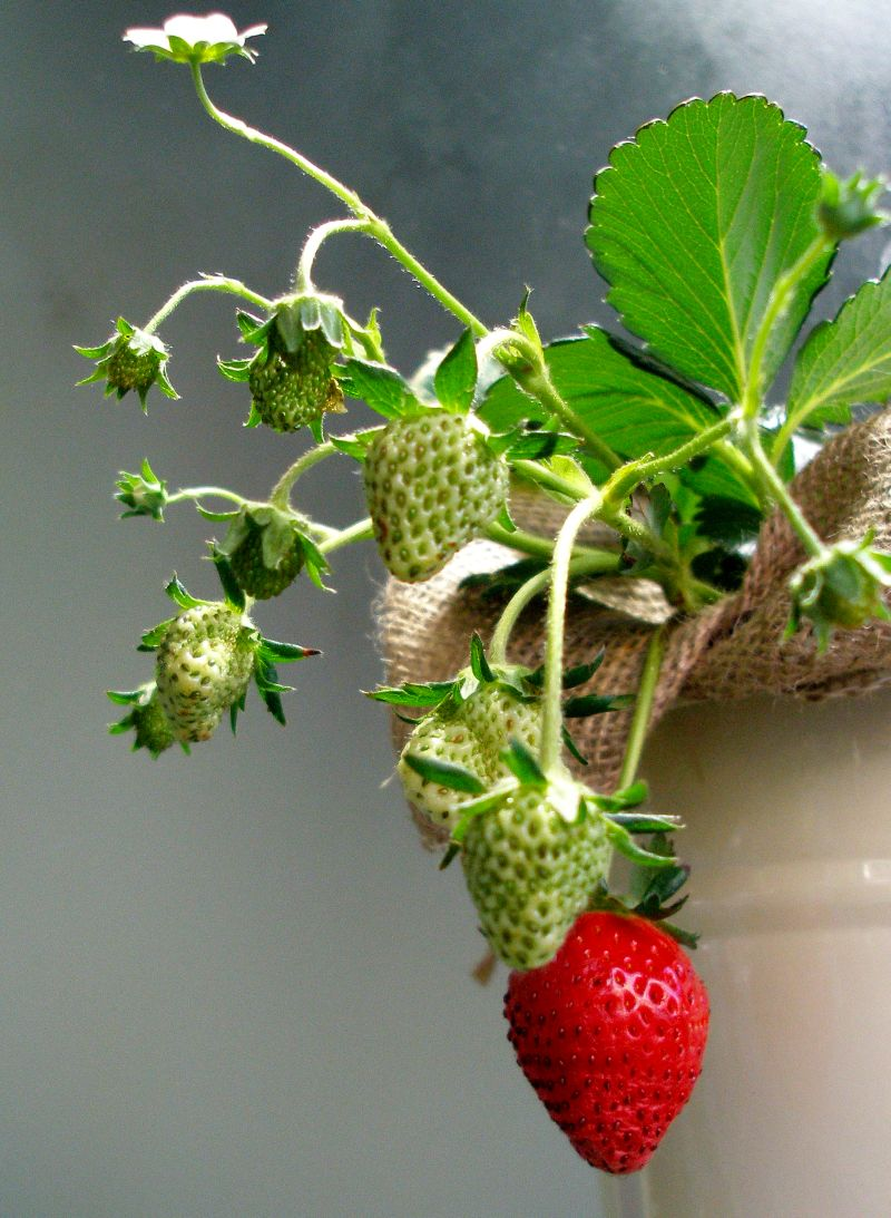 Strawberries ripening